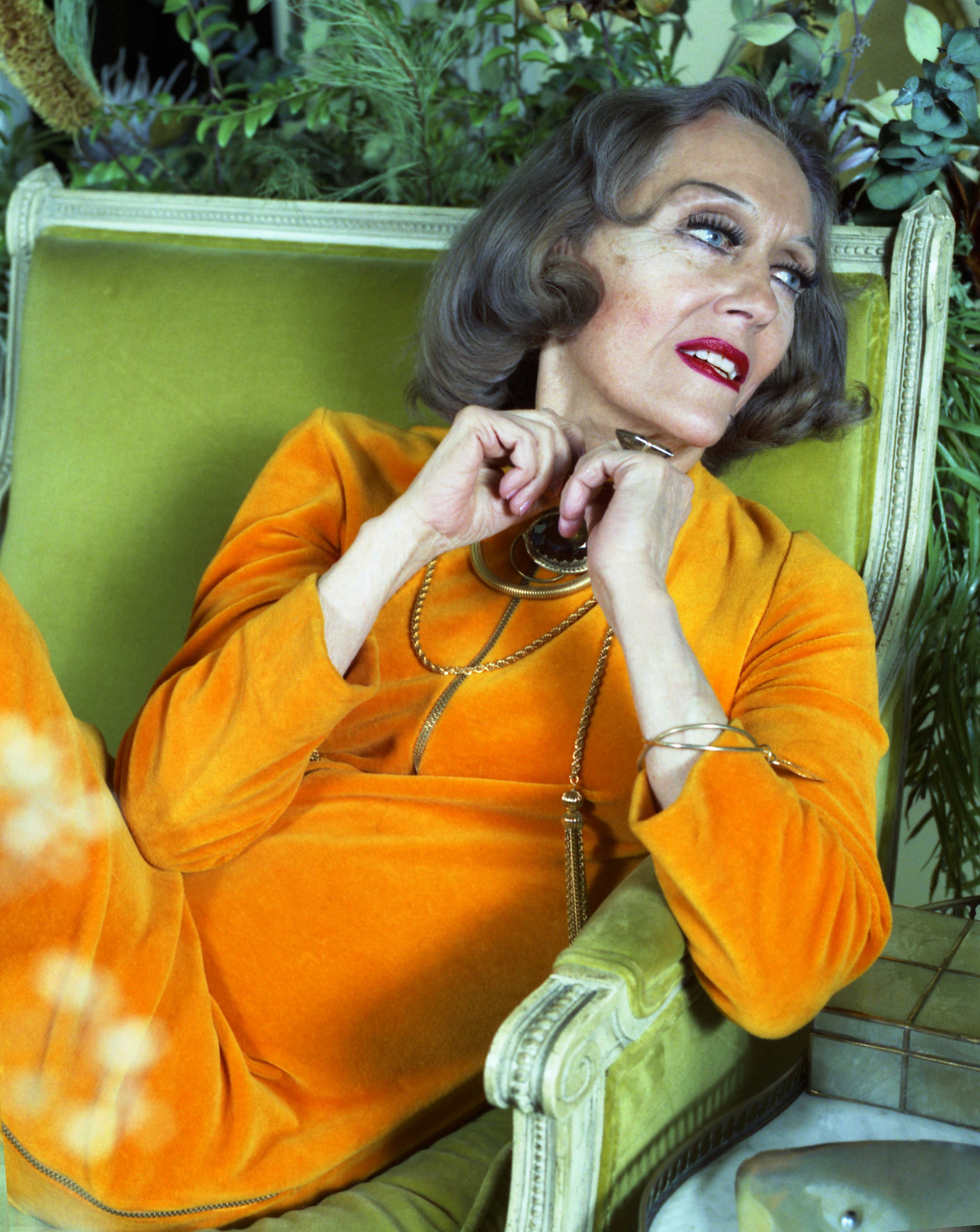 Glori Swanson in her New York apartment